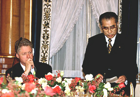 US President Bill Clinton and Japanese Prime Minister Keizō Obuchi (1937–2000) at a banquet hall in Tokyo.